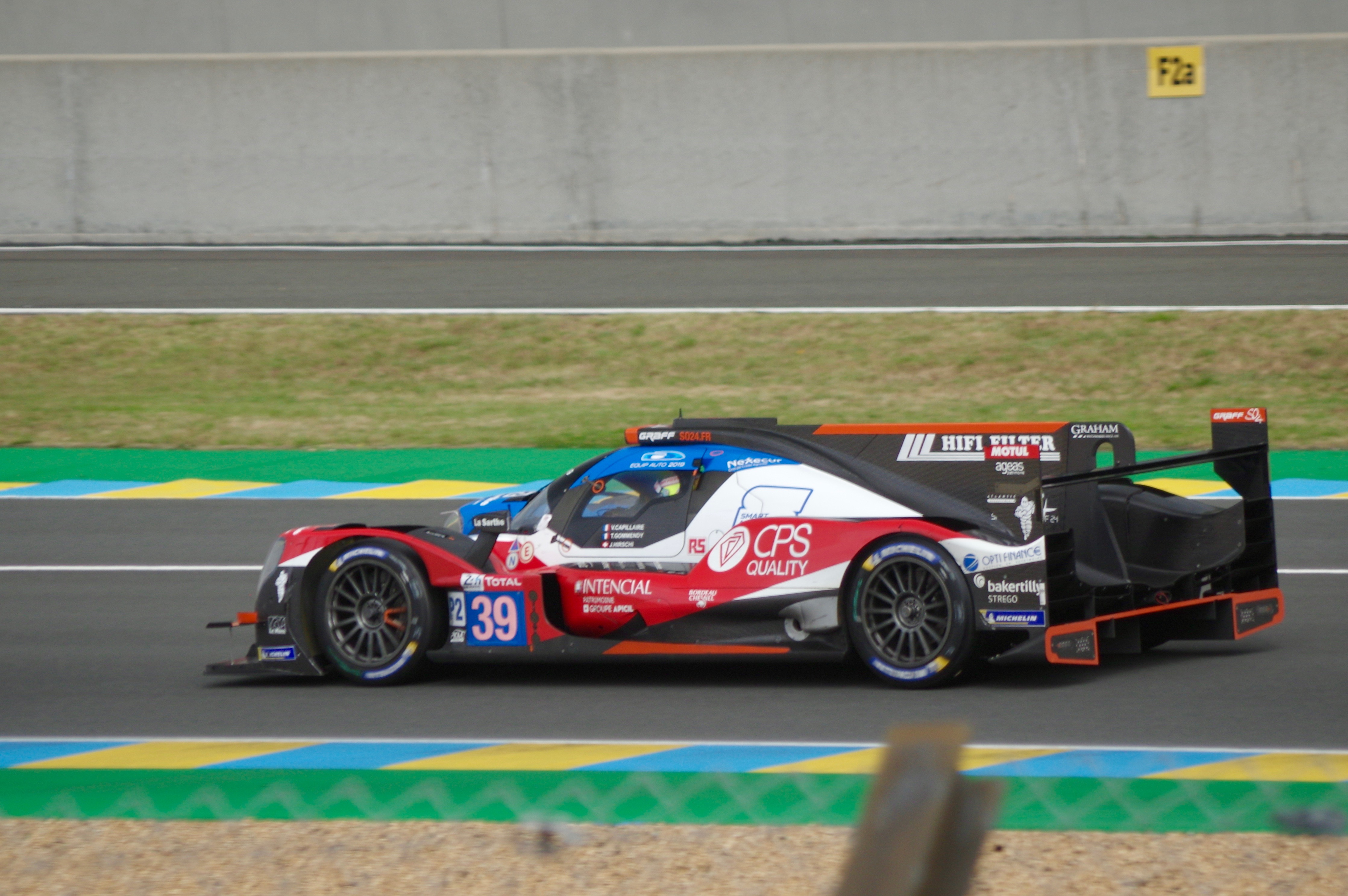 Graff's Oreca 07 Gibson Driven by Vincent Capillaire, Jonathan Hirschi and Tristan Gommendy at the 2019 24 Hours of Le Mans